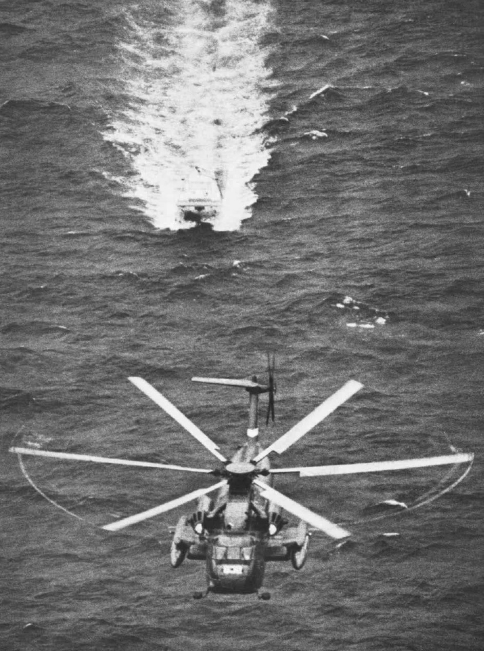 A U.S. Navy Sikorsky RH-53D of helicopter mine countermeasures squadron HM-12 Sea Dragons towing an Mk 105 minesweeping gear.